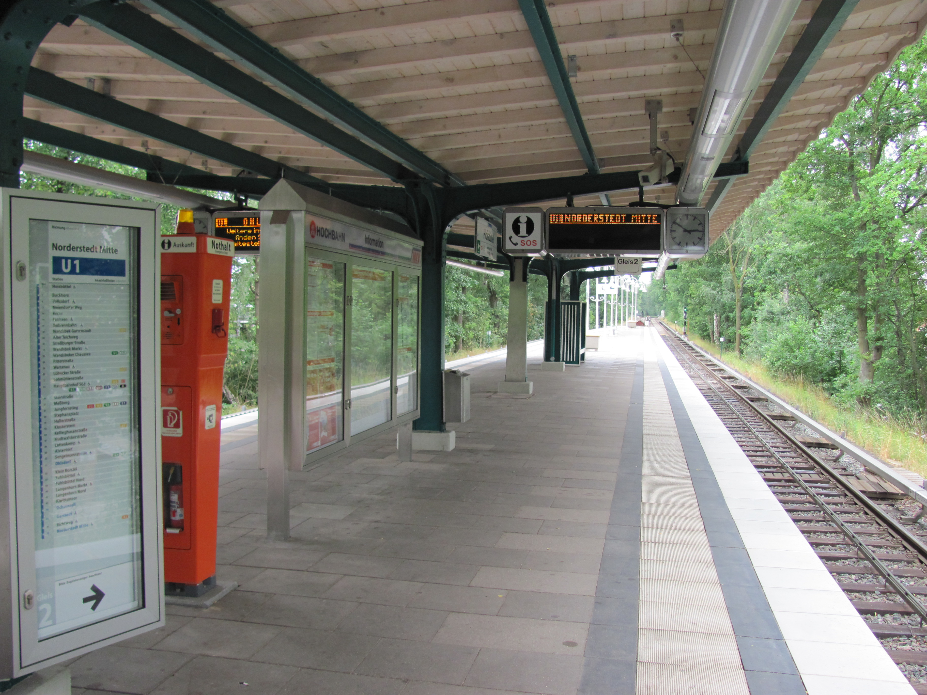 U-Bahn station Hoisbüttel in Ammersbek near Hamburg, Germany